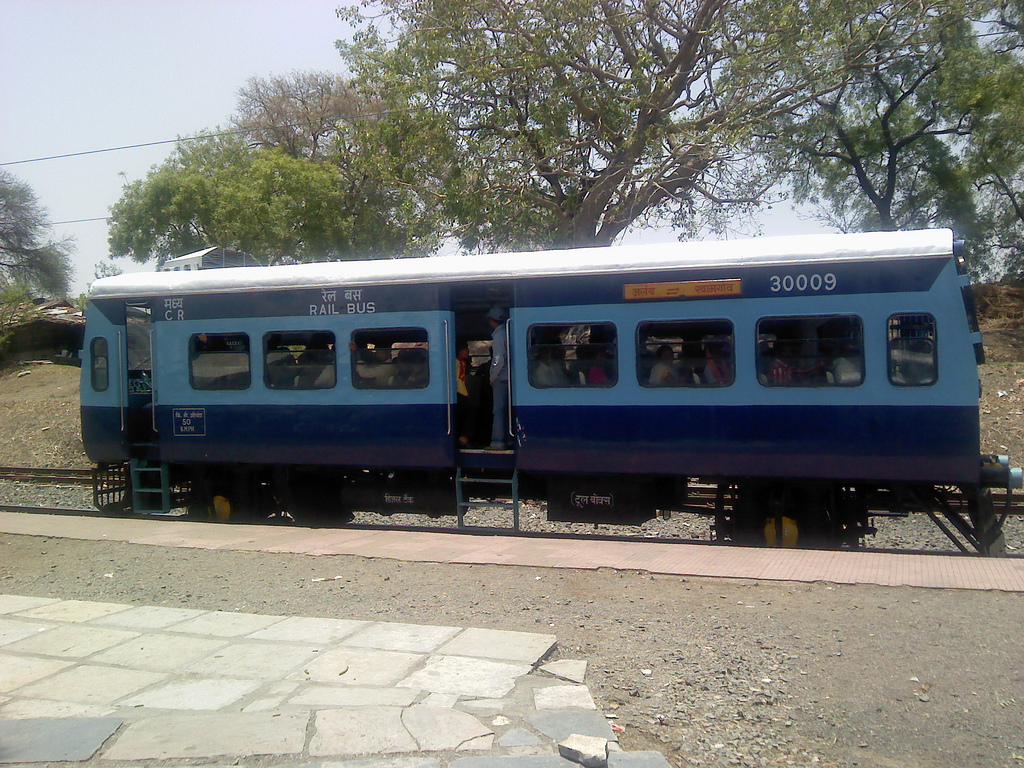 The railbus connecting Khamgaon to Jalamb Junction on Mumbai-Howrah line, waiting at Jalamb railway station.